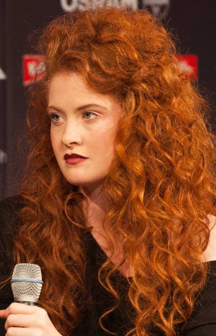 Eurovision Song Contest Vienna 2015: Mørland & Debrah Scarlett